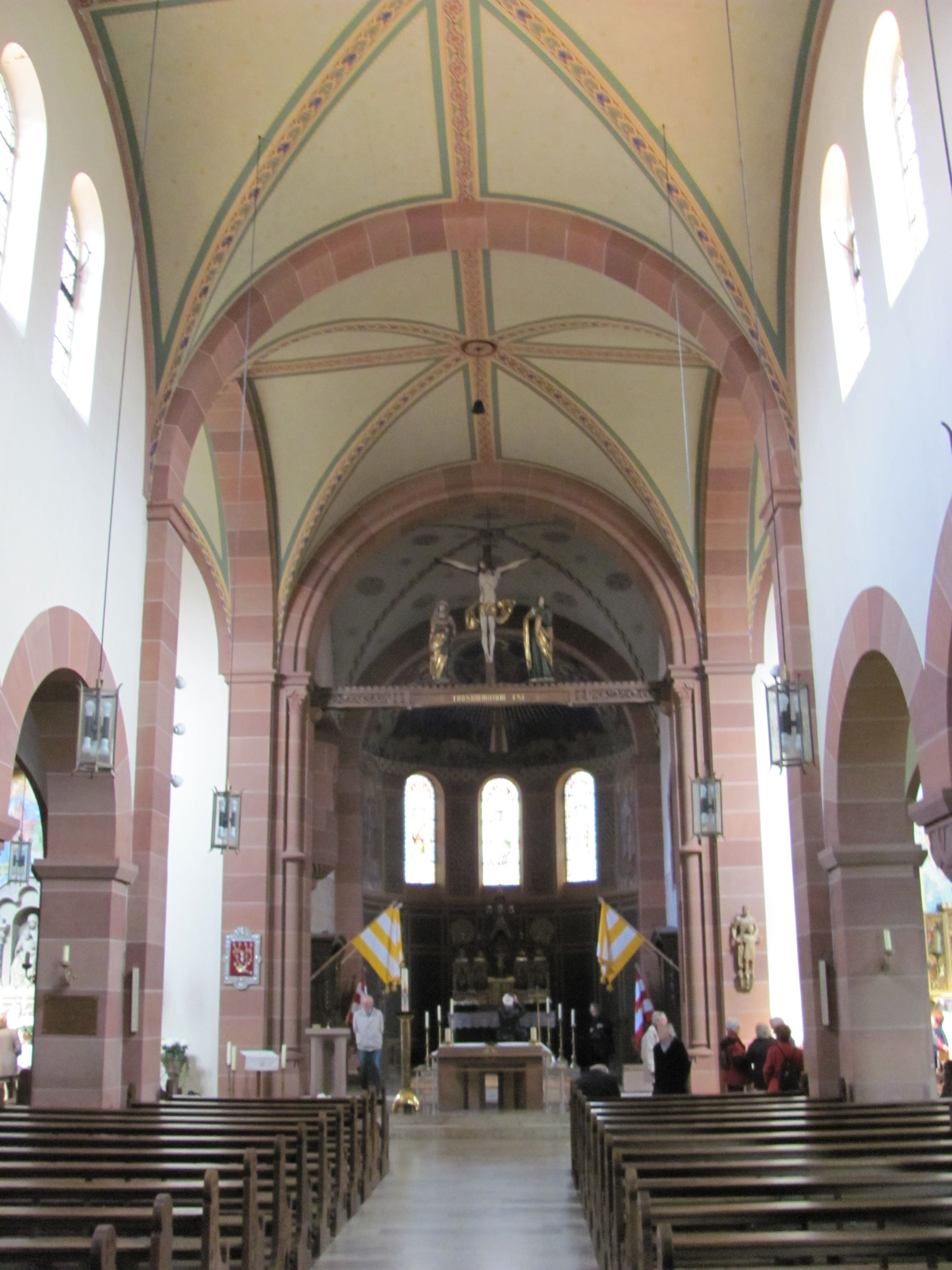 St. Nikolaus, Woerth am Main